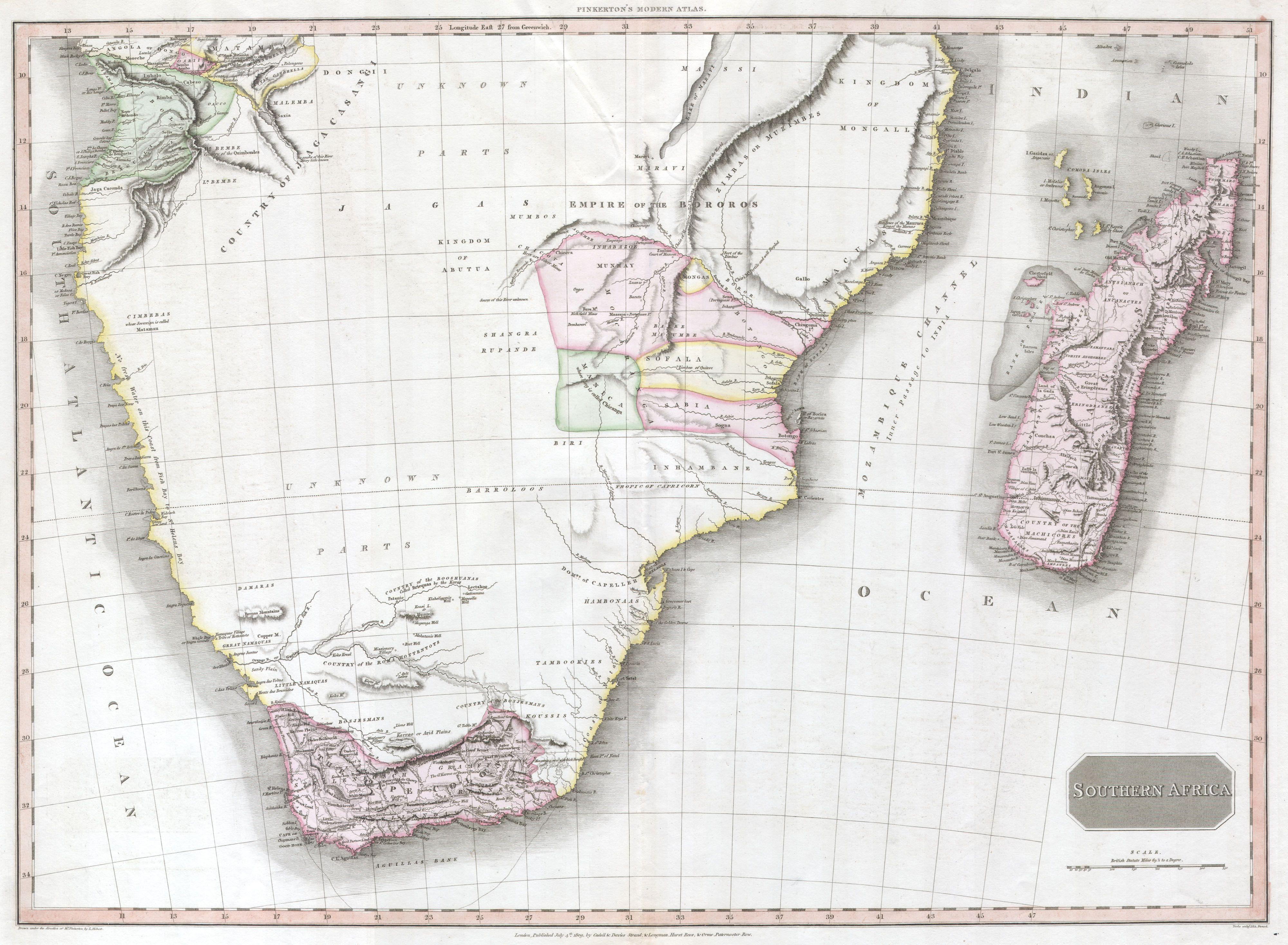 This fascinating hand colored 1809 map by Edinburgh cartographer John Pinkerton depicts Southern Africa. Covers Africa from Angola south to the Cape Colony (modern South Africa) and east to the Kingdom of Mongall (modern day Mozambique) and the island of Madagascar. Reflecting the somewhat limited knowledge of the African interior available to European cartographers of the period, only three areas are illustrated with any detail - the Congo, the Cape Colony (South Africa) and the former Kingdom of Monomotapa, which roughly overlaps modern day Mozambique. The Congo had been actively mapped and exploited by Portuguese merchants as early as the 14th century. South Africa, similarly, had an active Dutch and English presence since the earliest days of African Colonization. The ancient Kingdom of Monomotapa, here part of the Empire of the Bororos and divided into Sabia, Sofala, Munhay and Manica, appears on most early maps of Africa. Already a great trading Empire when Vasco de Gama rounded the Cape of Good hope in the 1490s, Monomotapa or the regions between the Sabia, Sofala and Zambezi River systems, had long been associated with legends of King Solomon's Mines and the Biblical lands of Ophir. In the 15th century the Zambezi hills were indeed rich in gold, but these deposits had run out by the 1600s. Still, the European imagination, inflamed by conquistador tales of golden empires in America, made several attempts to conquer the region, only to find that there was no more gold to be had. In other areas of Africa's interior Pinkerton notes an embryonic Lake Malawi (named Maravi), and notes several important African tribal nations, including the Massai, the Hottentots, the Bembe, and the Luba (Lubolo).